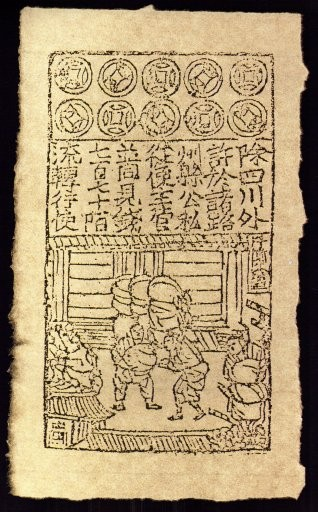 An illustration of a Chinese banknote from a paper about the monetary history of China written by John E. Sandrock.